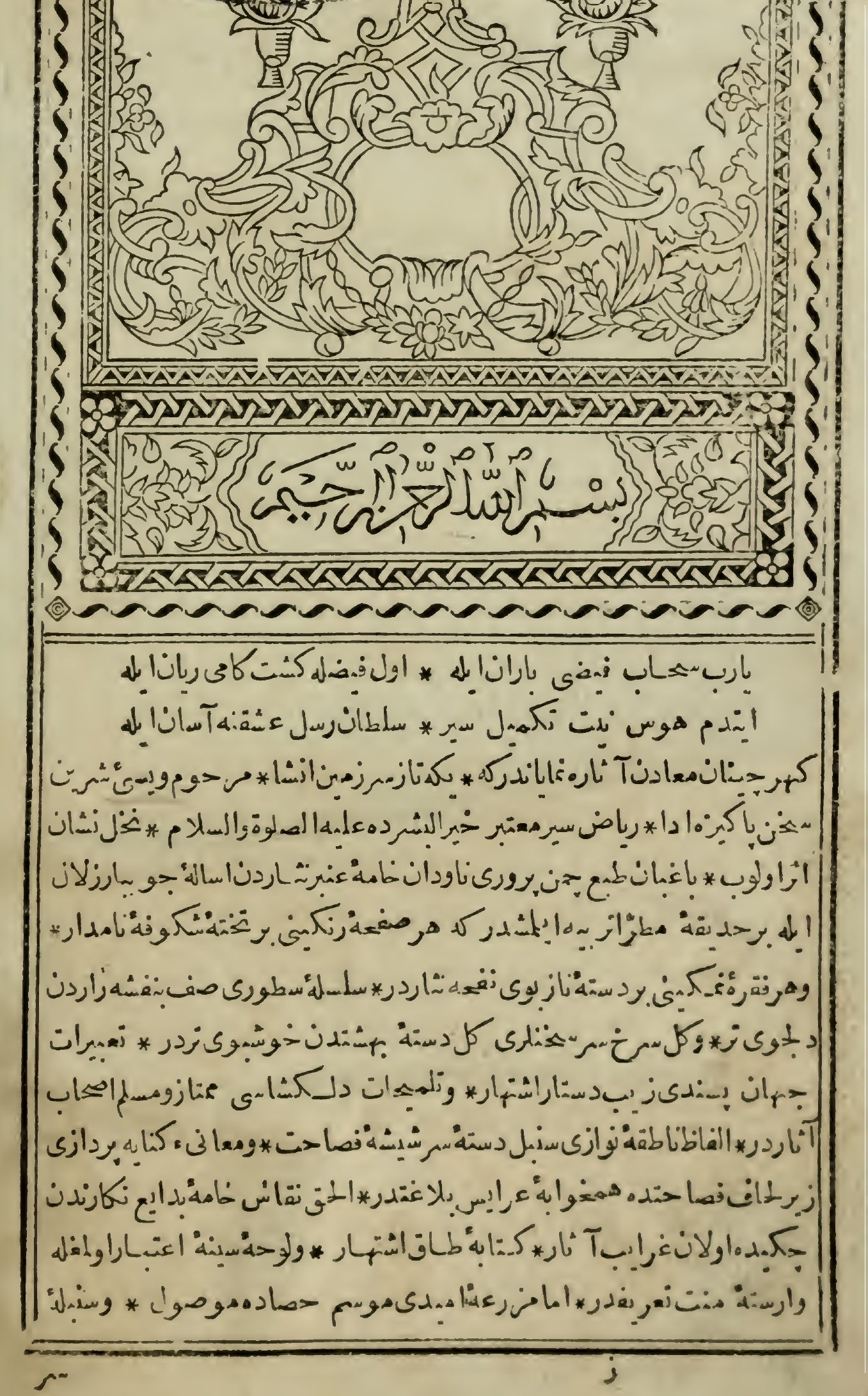 First Page of Siyer-i Nebi (1832) Author: Mustafa Ibn Yusuf Language: Ottoam-Turkish language Published: 1832, Istanbul, Ottoman Empire